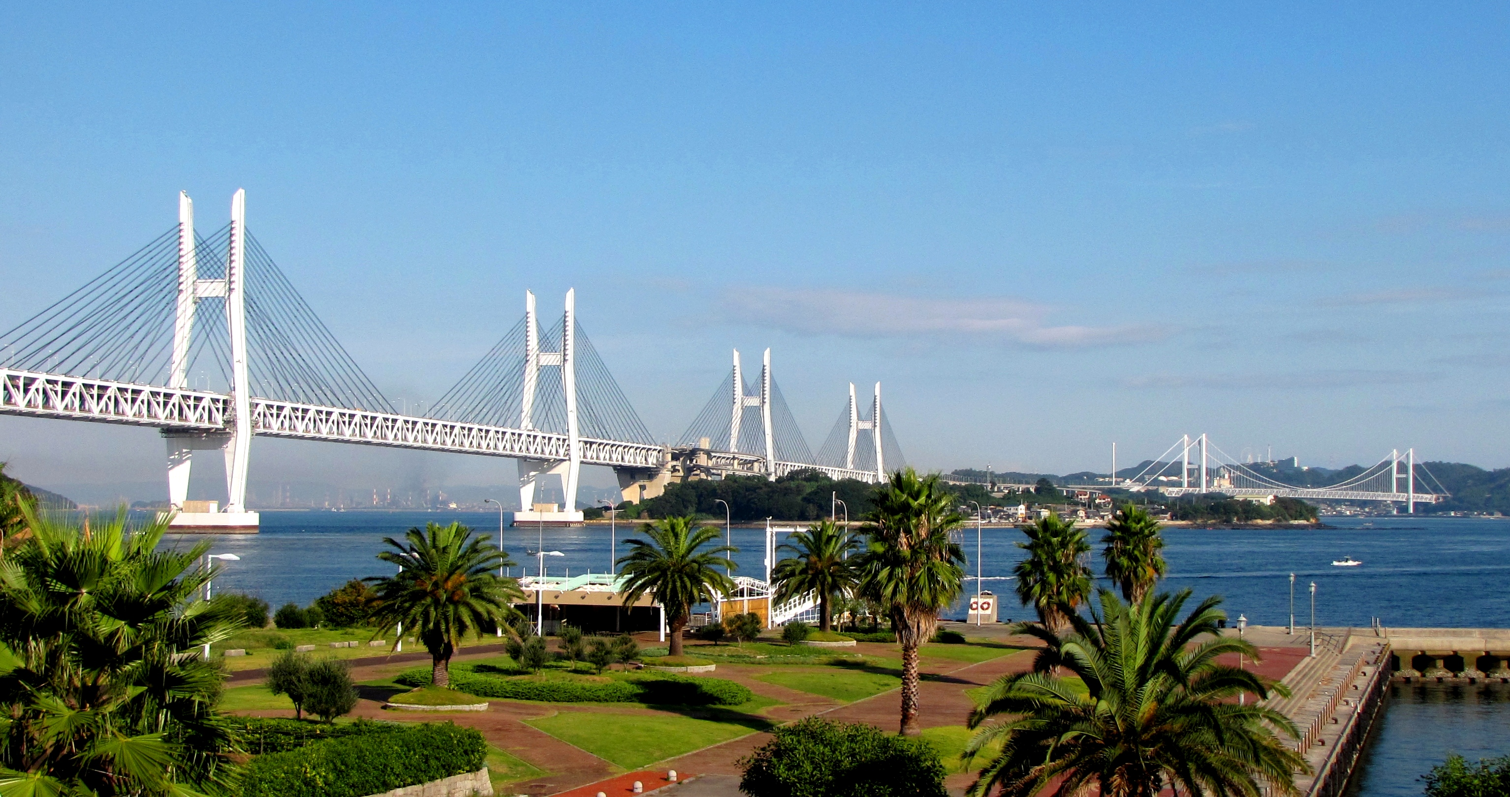 Iwakurojima and Hitsuishijima Bridges of Great Seto Bridge, connecting Okayama and Kagawa prefectures in Japan